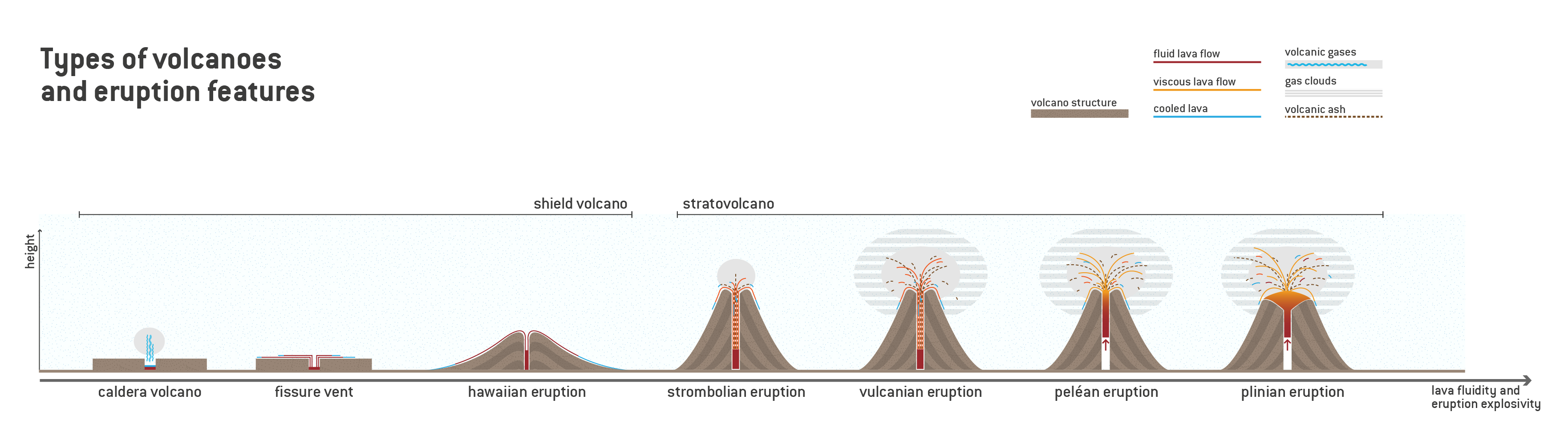 The image correlates types of volcanoes with their respective eruption, highlighting the differences.